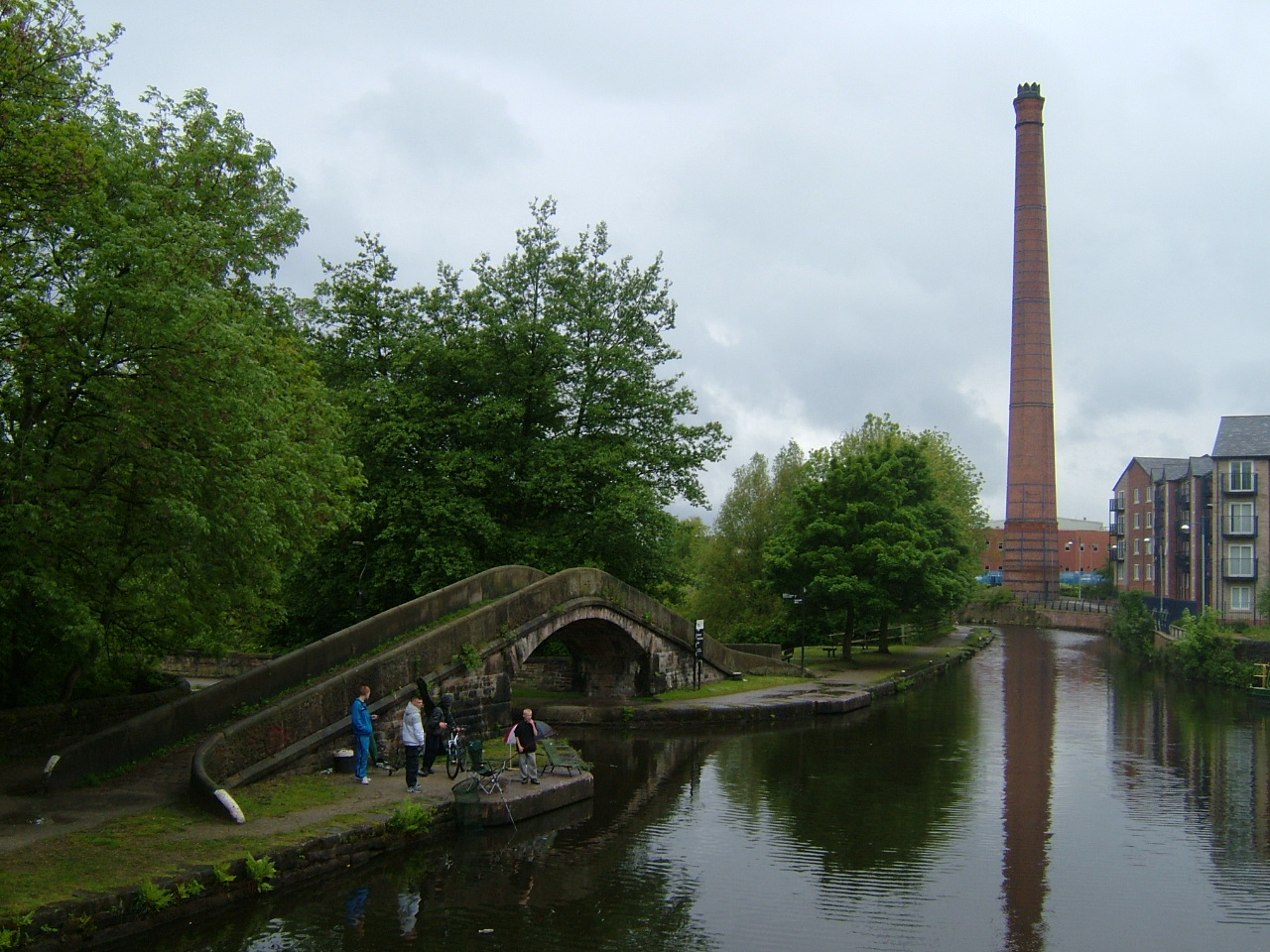 Ashton-under-Lyne on the River Tame is where the Ashton Canal meets the Peak Forest Canal and the Huddersfield Narrow Canal. Ashton Canal, Portland Basin.